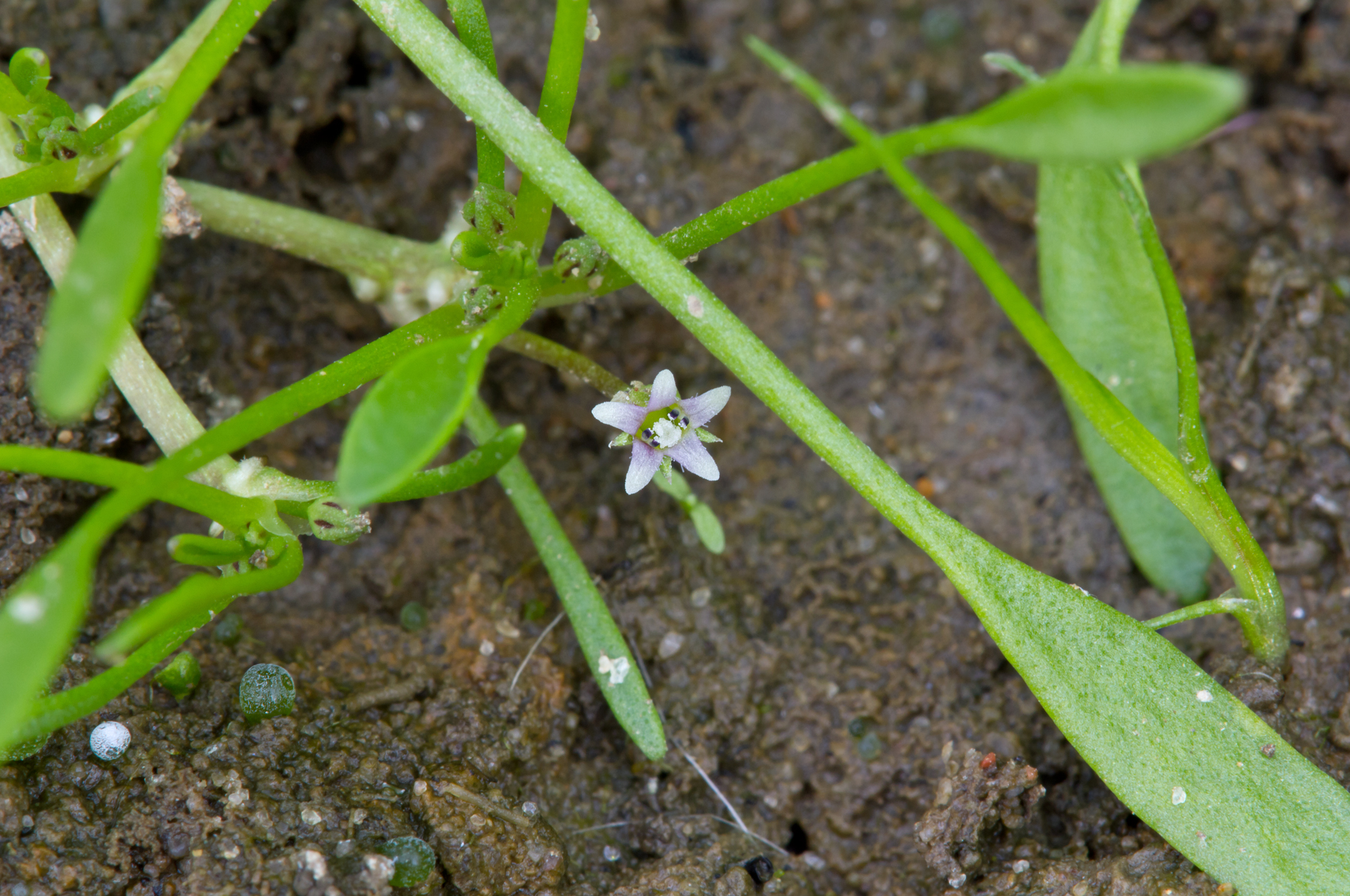 Detail (with tiny flower) of Water mudwort, Limosella aquatica, near the banks of the Elbe River.